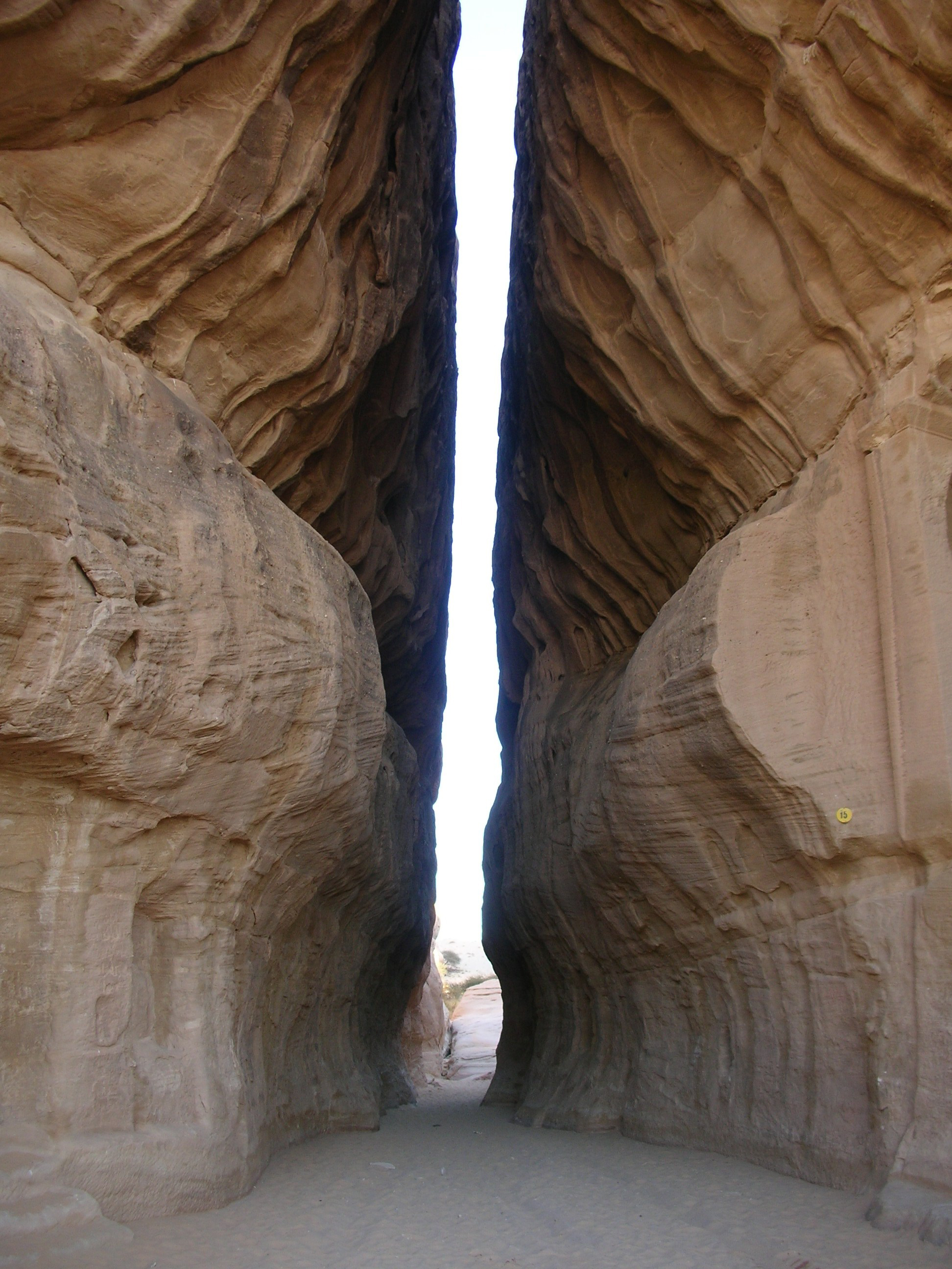 Al-Hijr Archaeological Site (Madâin Sâlih) (Saudi Arabia)